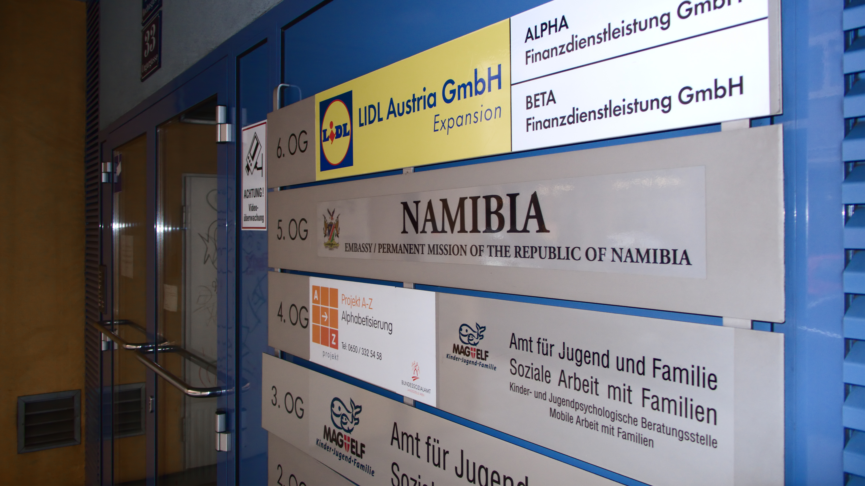 Embassy of Namibia in Vienna